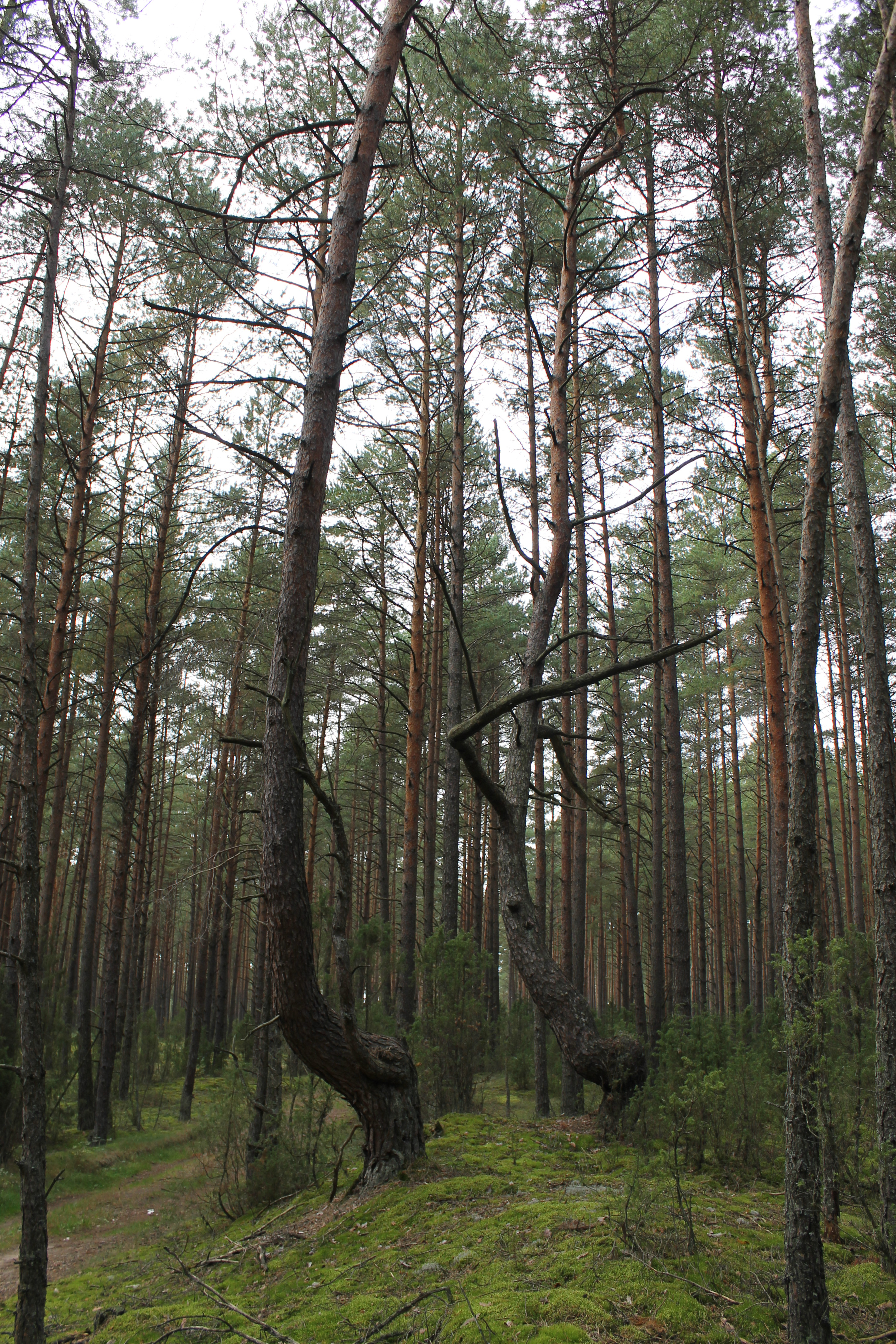 Neravai, Druskininkai municipality, Lithuania